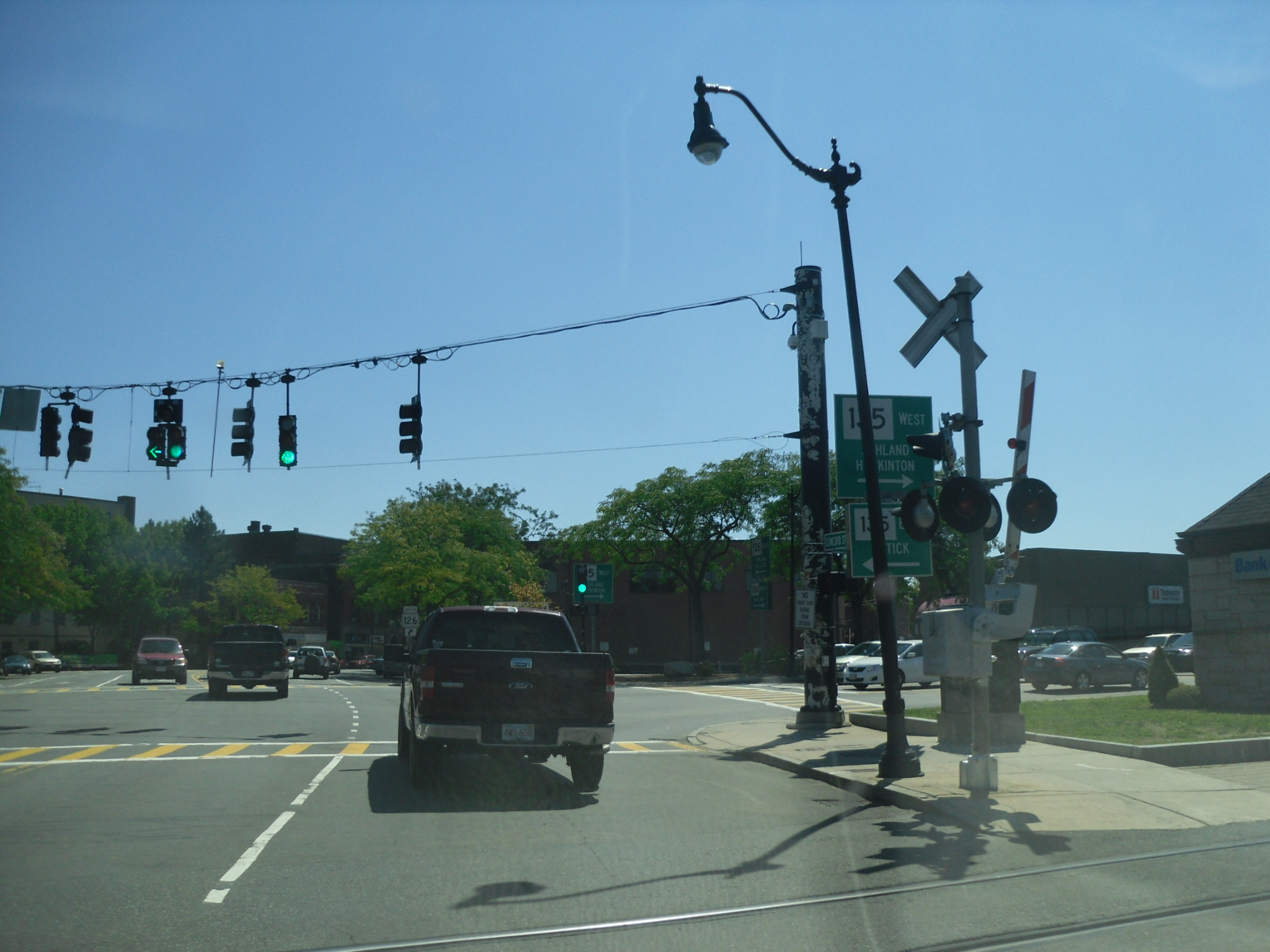 Massachusetts State Route 126 crosses the MBTA Framingham/Worcester Line tracks in downtown Framingham adjacent to the intersection with Route 135.